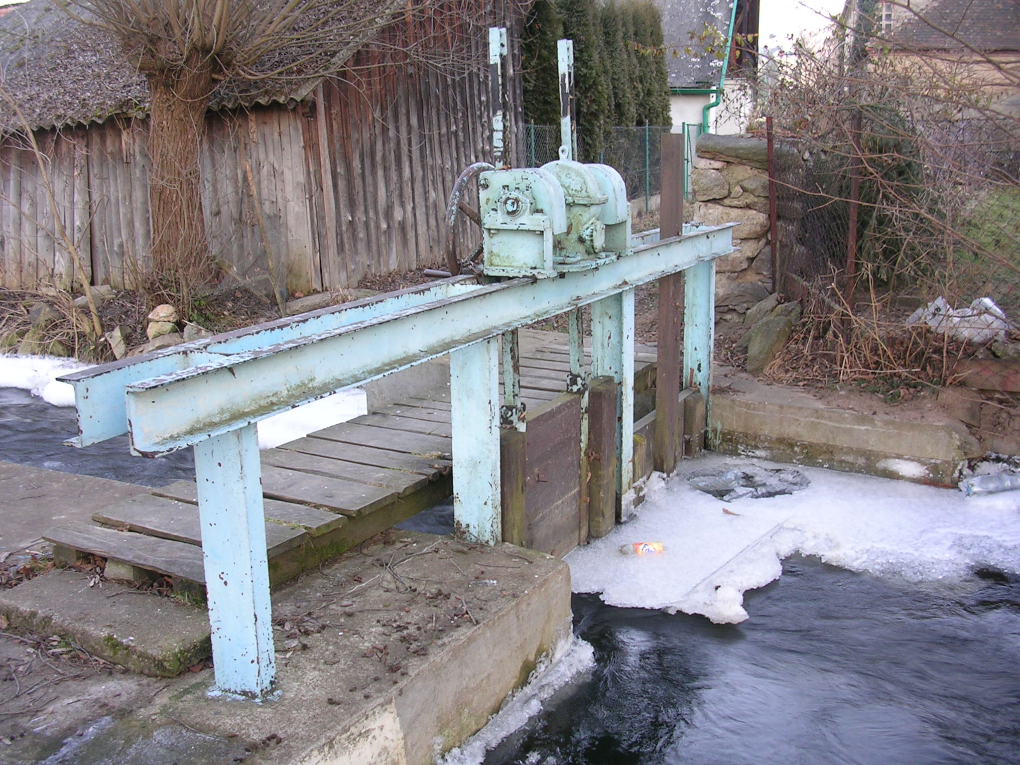 Malenice, the Czech Republic. Floodgate of the weir at Volyňka River.